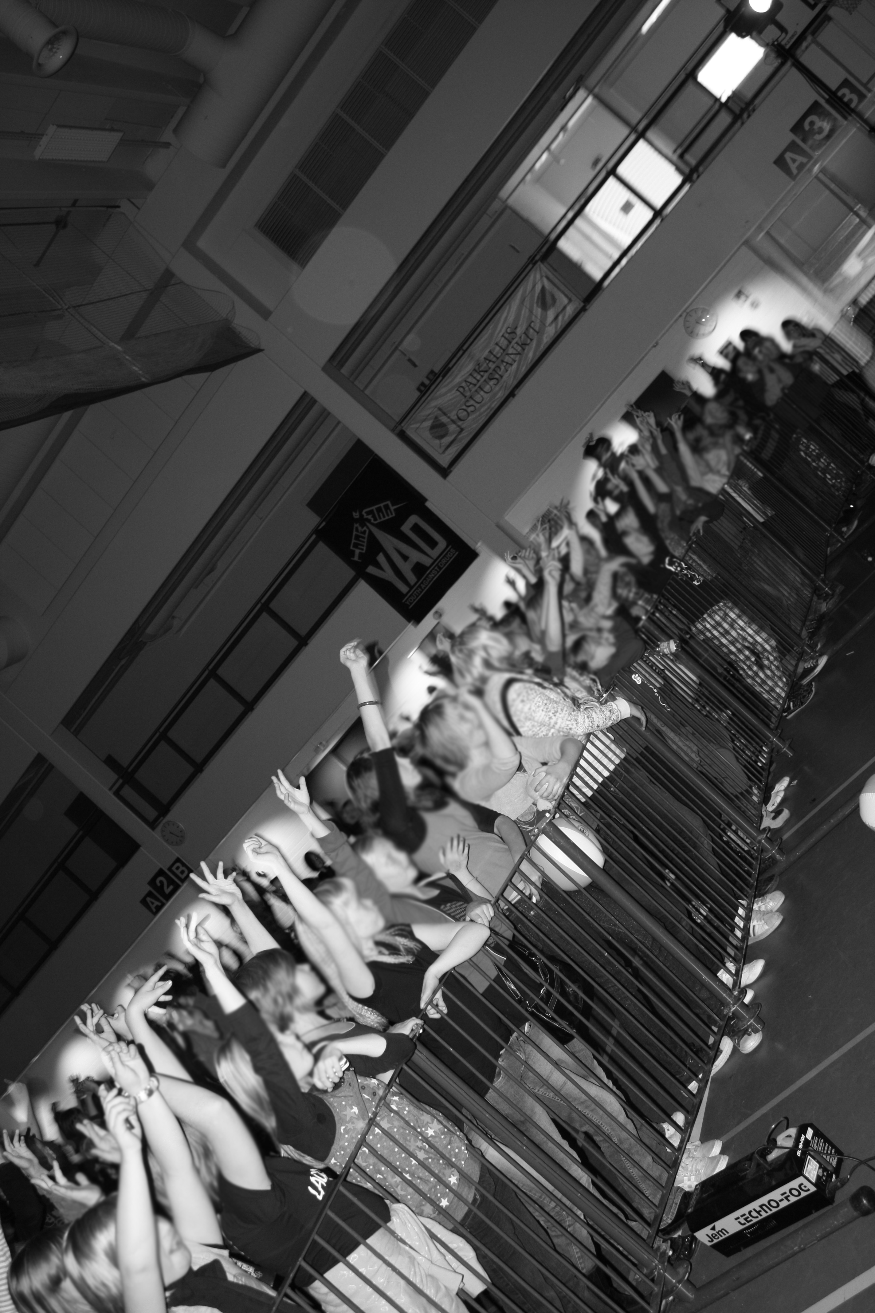 Music Against Drugs evening event